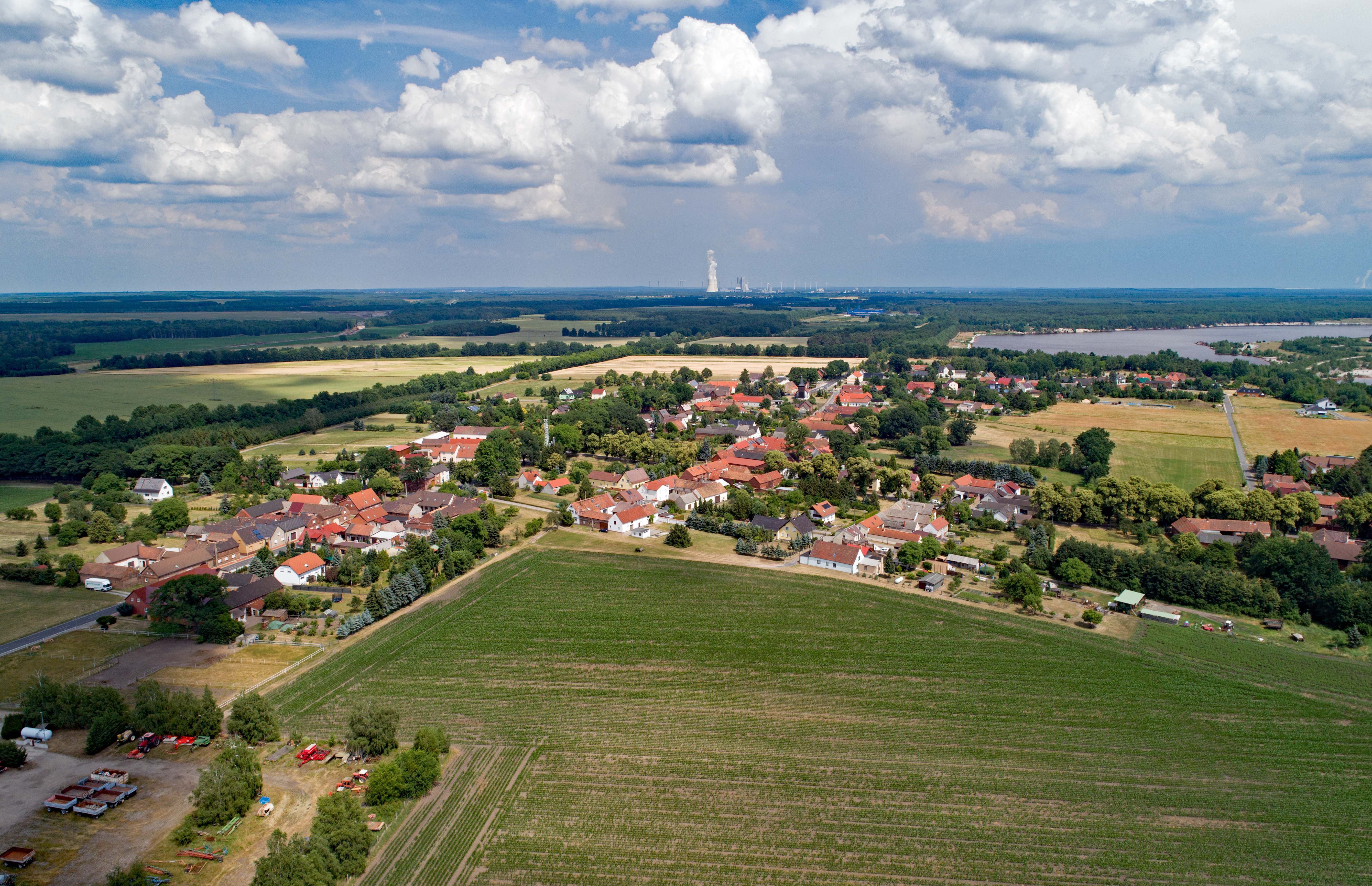 Bluno (Elsterheide, Saxony, Germany) Hornjoserbsce: Powětrowy wobraz Blunja